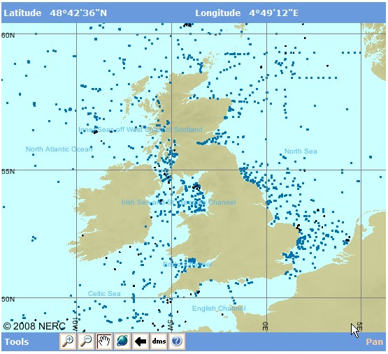 BODC current meter data holdings from around the UK.